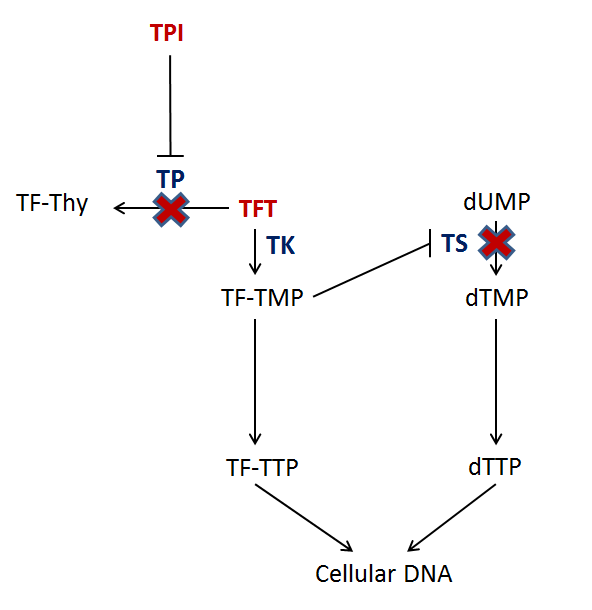 TAS-102: Trifluridine and Tipiracil Mechanism of Action